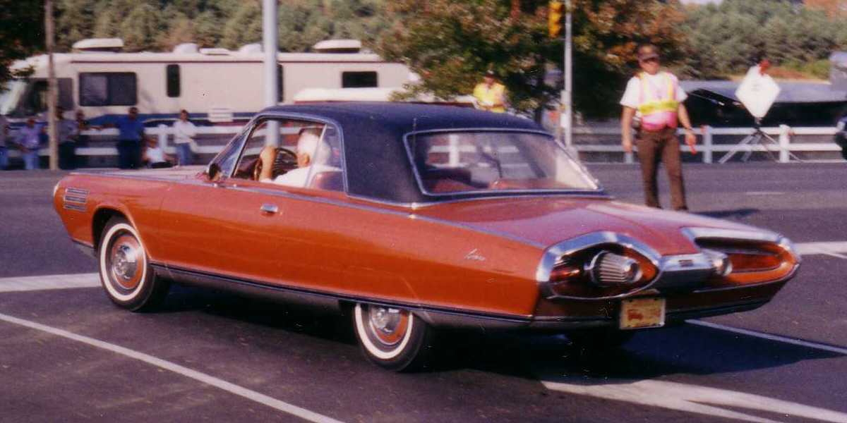 1963 Chrysler Turbine in Hershey PA.